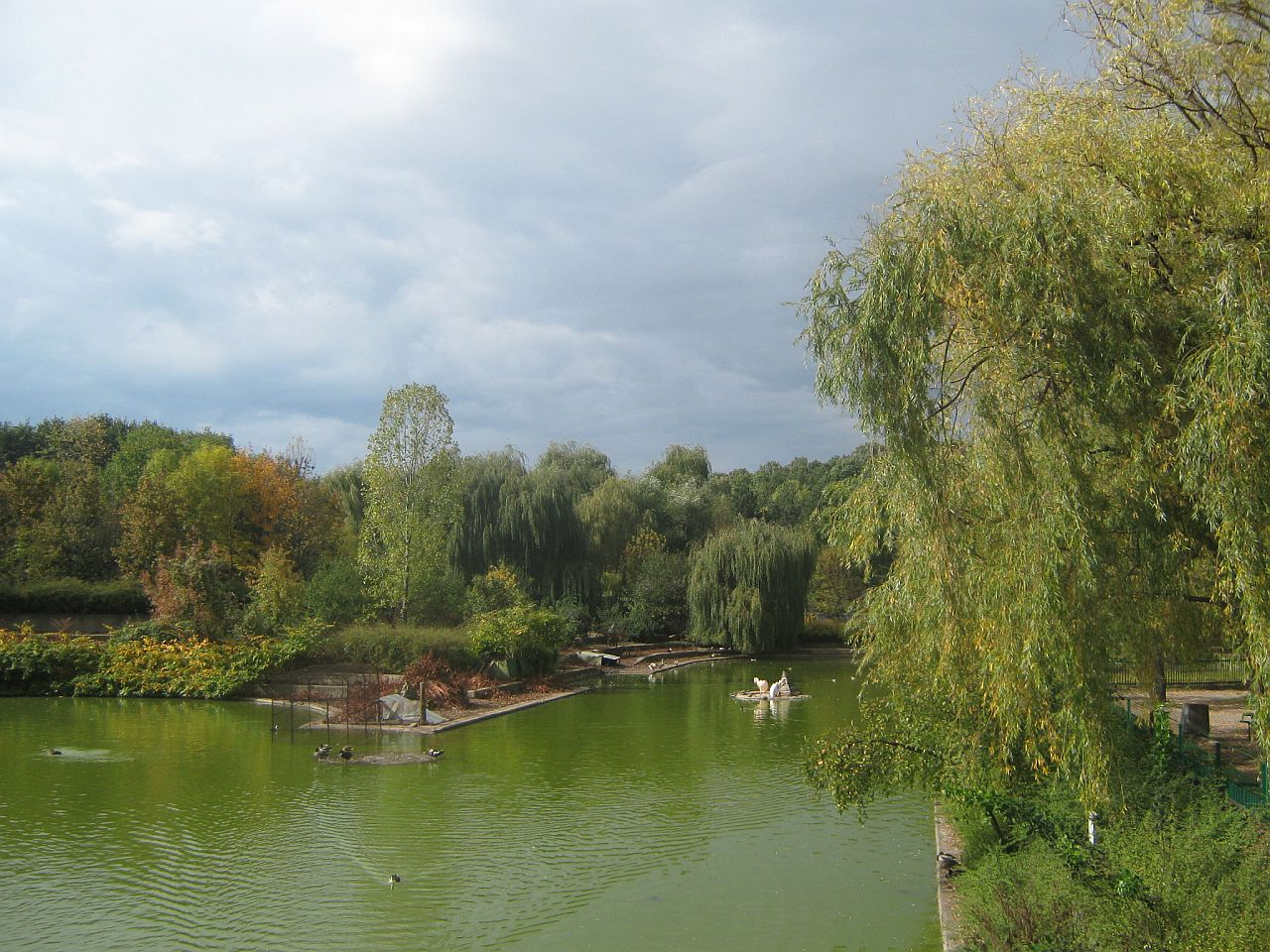 A view from Sofia Zoo.